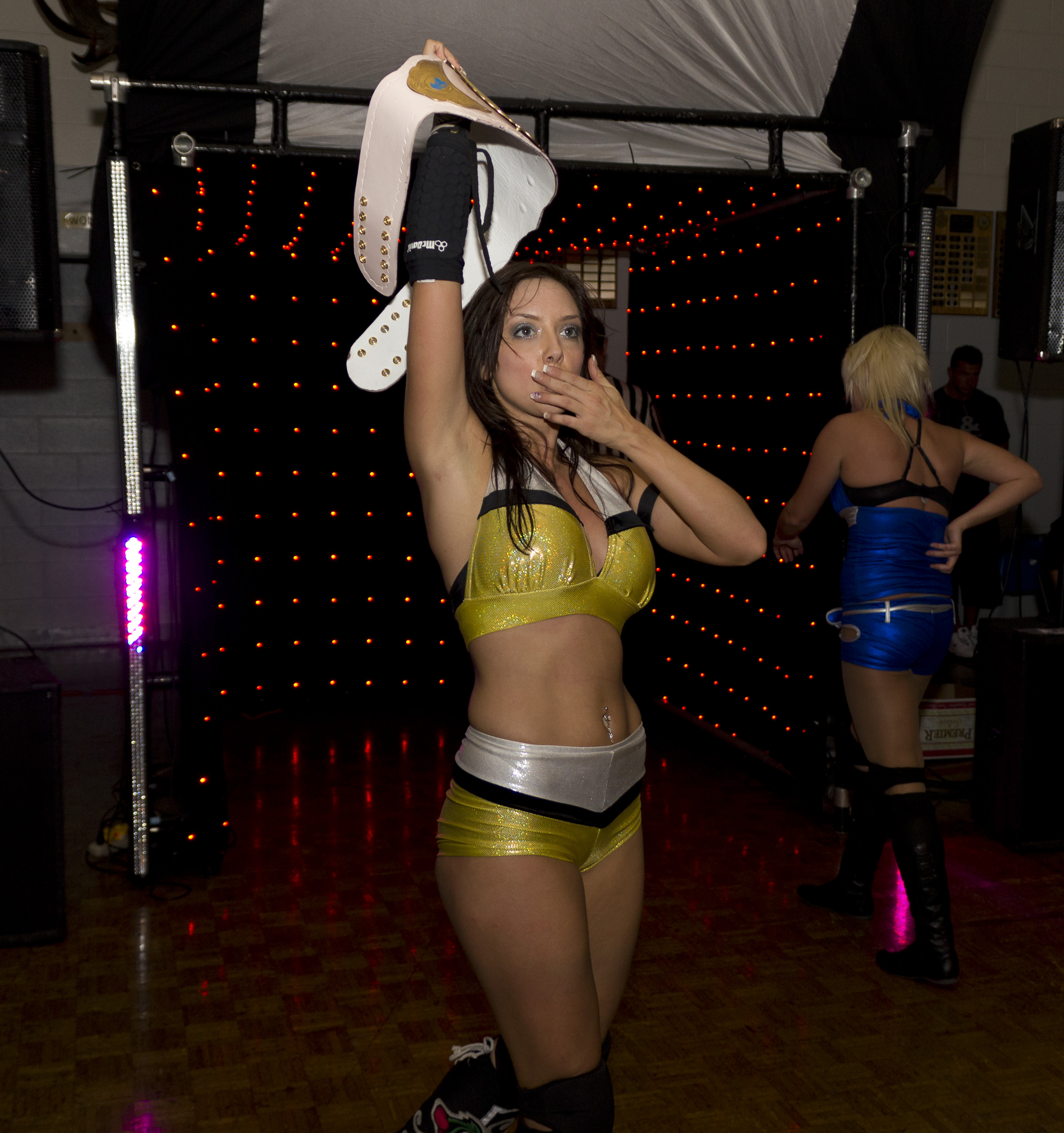 Cherry Bomb holding the TCW Women's title up